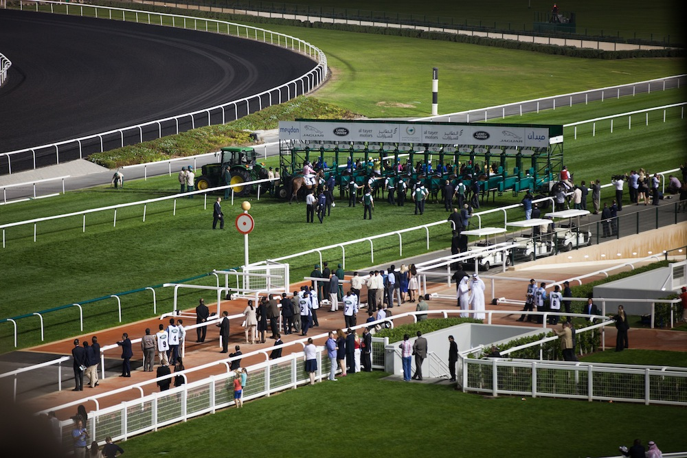 Al Tayer Motors is a regular sponsor of horseracing and also supports a domestic “Racing at Meydan” card in December as well as the 3200m stayers’ race, the Group 3 $1million Dubai Gold Cup on Dubai World Cup day, March 30 2013.